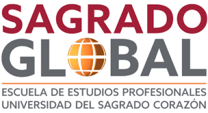 Logo de Sagrado Global, la Escuela de Estudios Profesionales